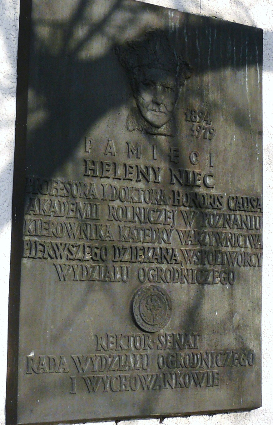 Helena Niec Plaque, Poznan, Collegium Zembala.